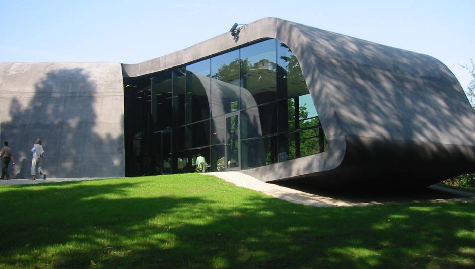 New wing of Ordrupgaard (c) 2005, Niels Elgaard Larsen.